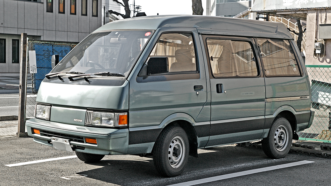 Nissan Vanette van VX ( VC22 )